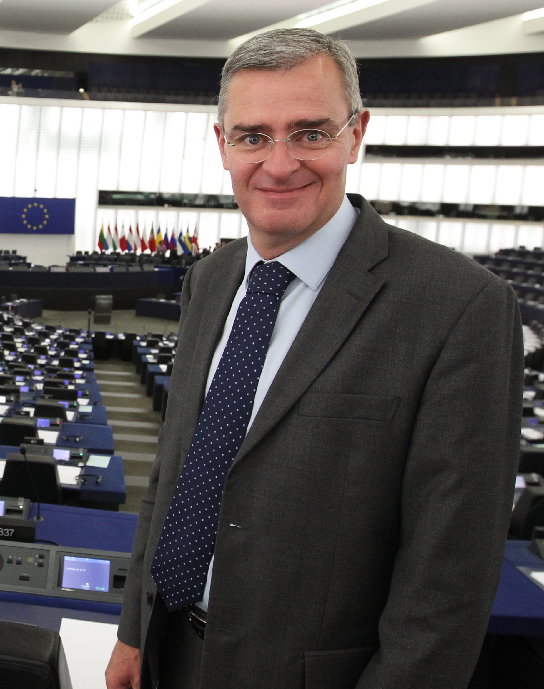 MJ strasbourg